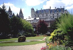 Personal photo.